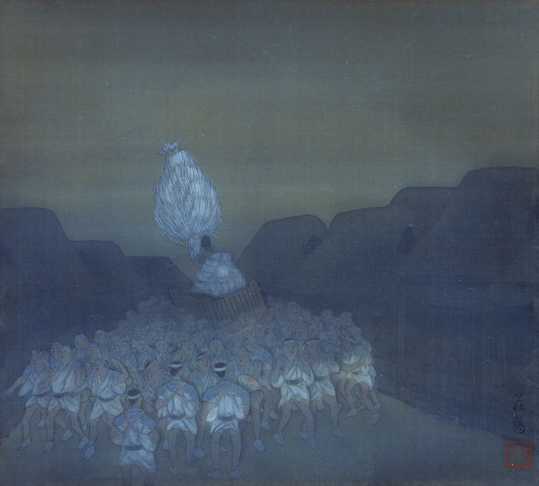 Agatamatsuri, festival of Agata shrine, Uji city Japan